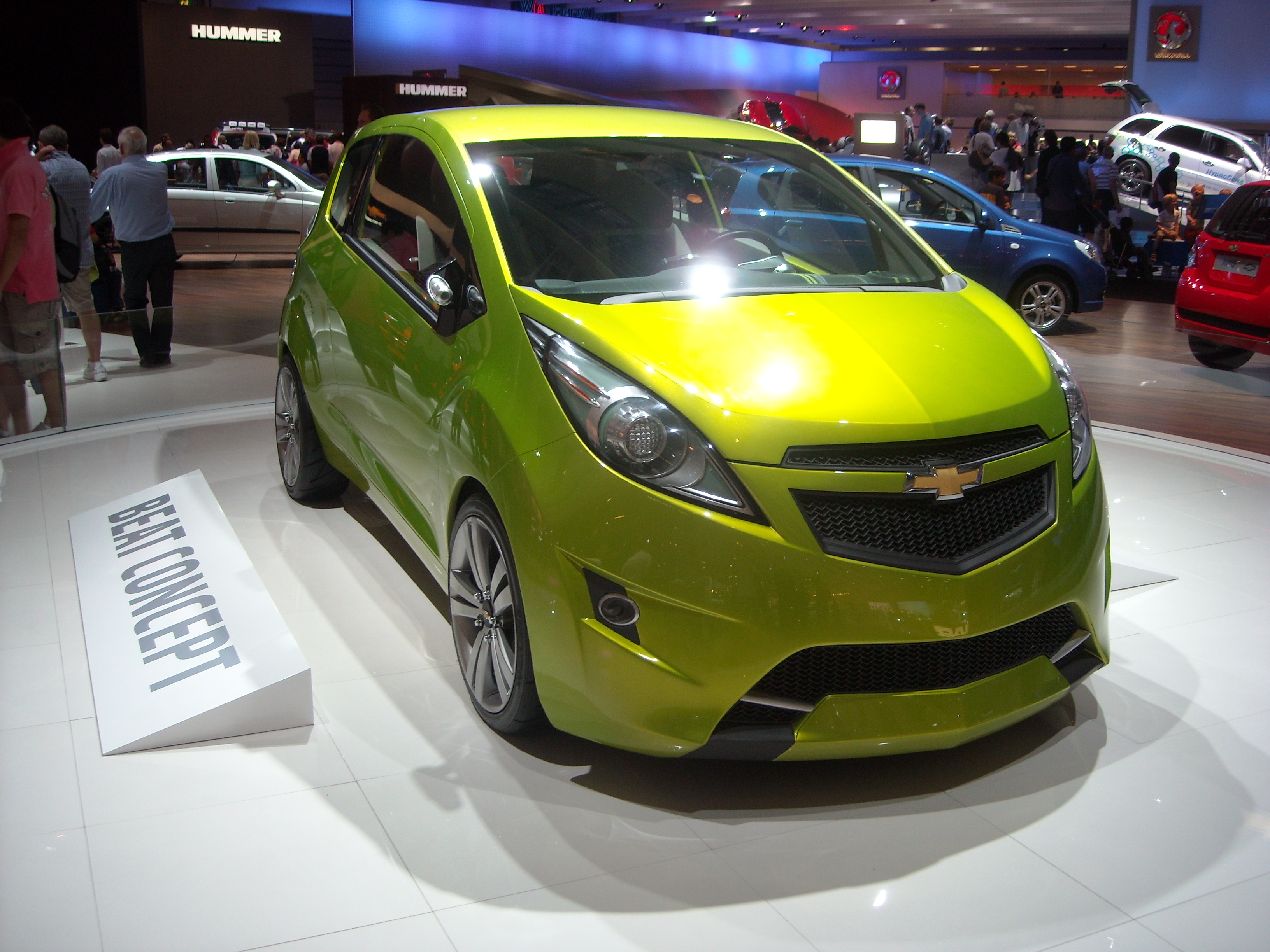 Chevrolet Beat concept at the British Motor Show in July 2008.